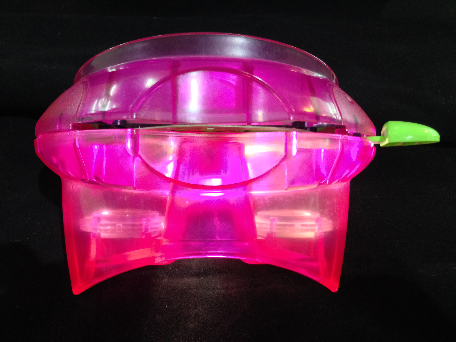 View-Master Virtual Viewer. See through Pink